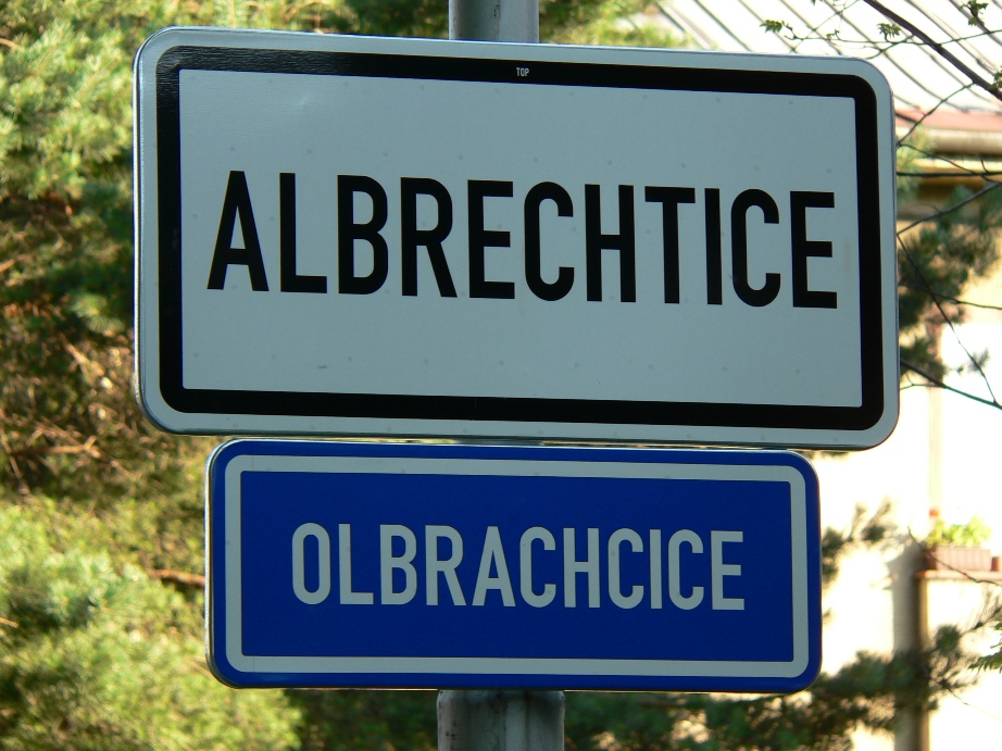 Description: Bilingual signs in Albrechtice (Olbrachcice), Czech Republic. Date: 26 July, 2007 Camera: Panasonic DMC-FZ20 Author: Czesil